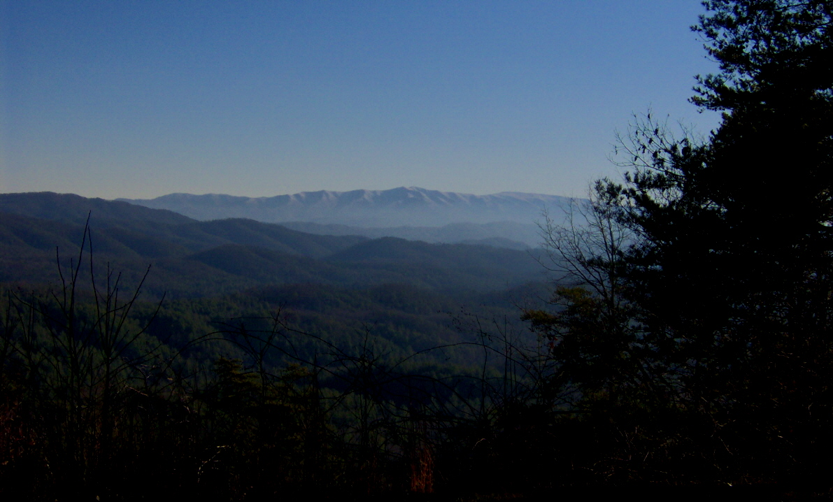 The Yellow Creek section of the Unicoi Mountains on the Tennessee-North Carolina border as viewed from the Chilhowee section of Foothills Parkway (Southeastern U.S.). This view is from one of several overlooks just west of the Look Rock Tower Trail parking lot.